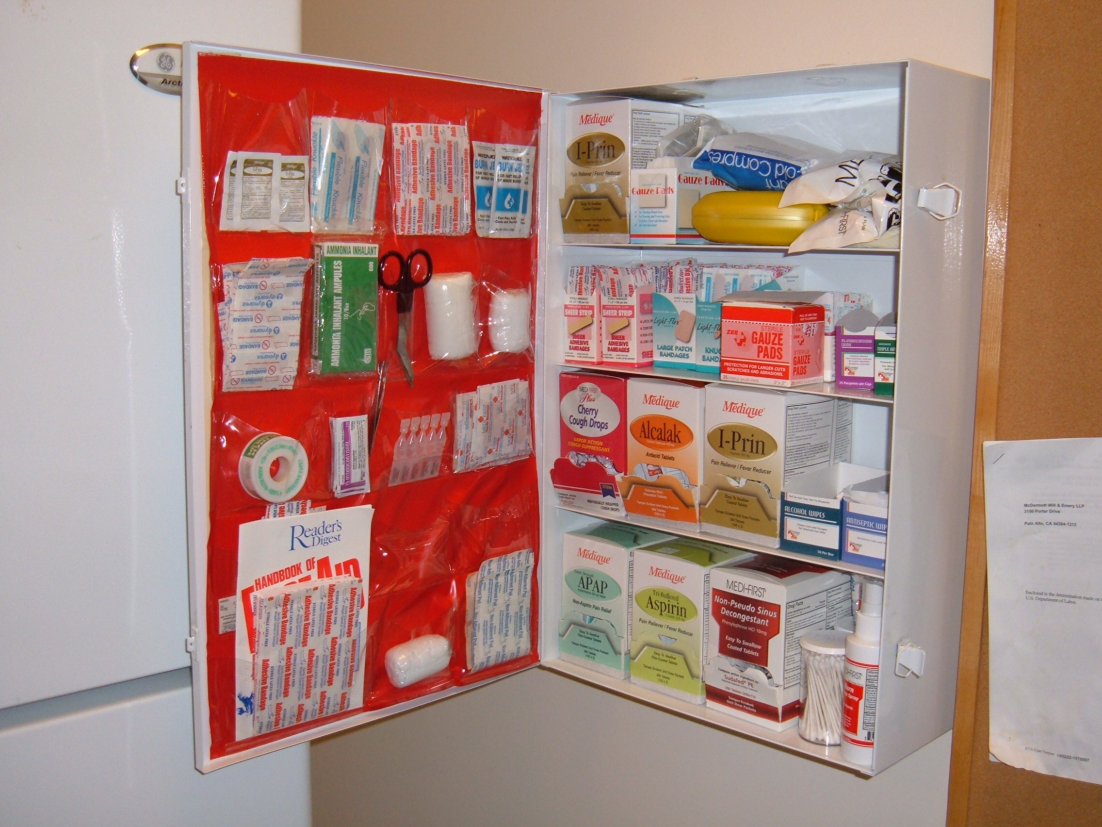 Medlife Services first aid cabinet, in the breakroom of an office.